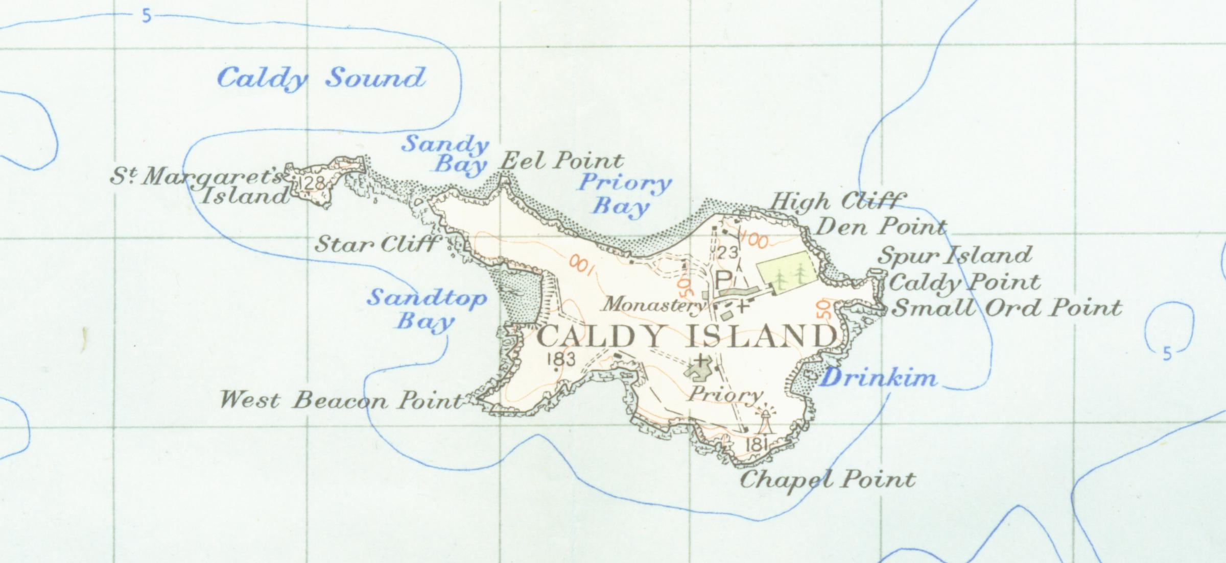 Map of caldey island from 1952 scale one inch to the mile scanned at 600 DPI